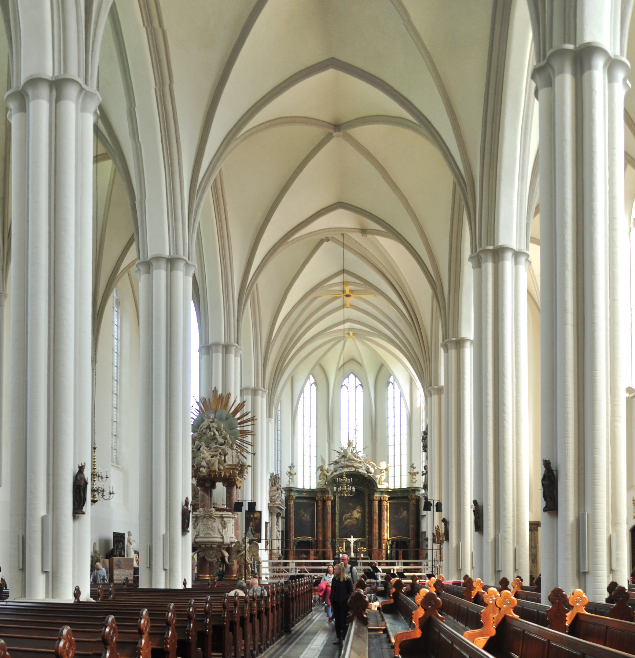 Panoramic interior view of St. Marienkirche, Berlin-Mitte, Germany. Object location52° 31′ 14″ N, 13° 24′ 24″ E